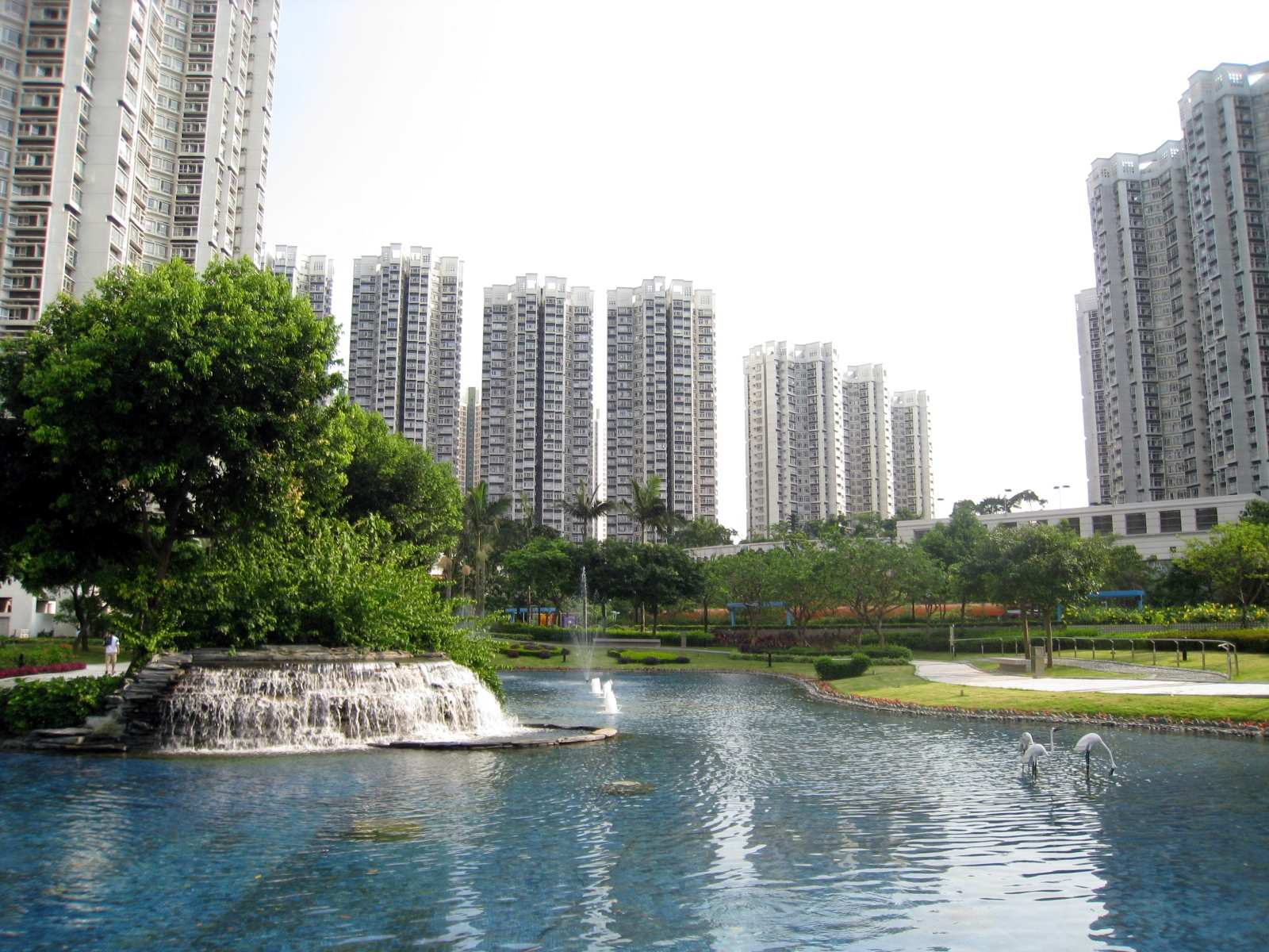 Kingswood Villas Sherwood Court Pool View 嘉湖山莊賞湖居